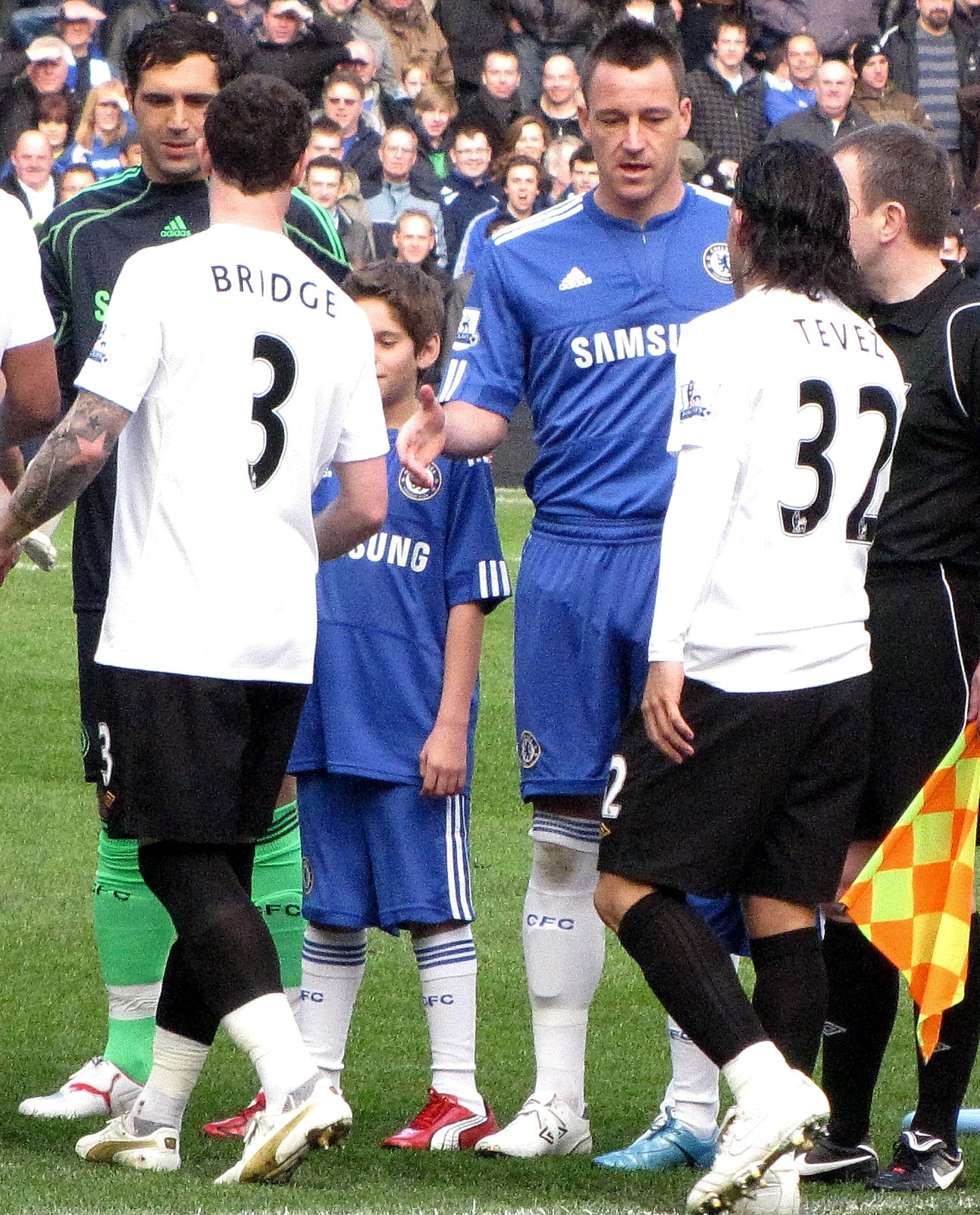 Wayne Bridge refuses to shake Chelsea captain John Terry's hand at the start of the Chelsea v Man City game Feb 27th 2010